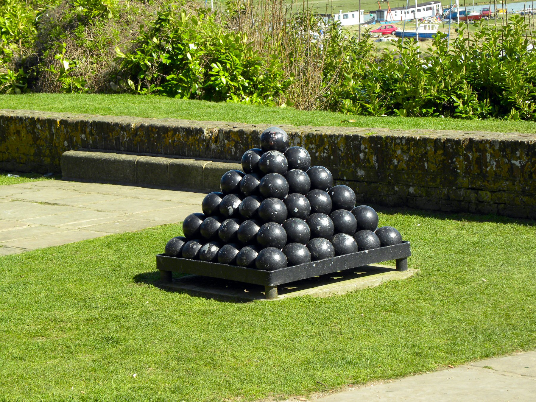 Cannonballs in the garden at Rye Castle, Rye, East Sussex, England.